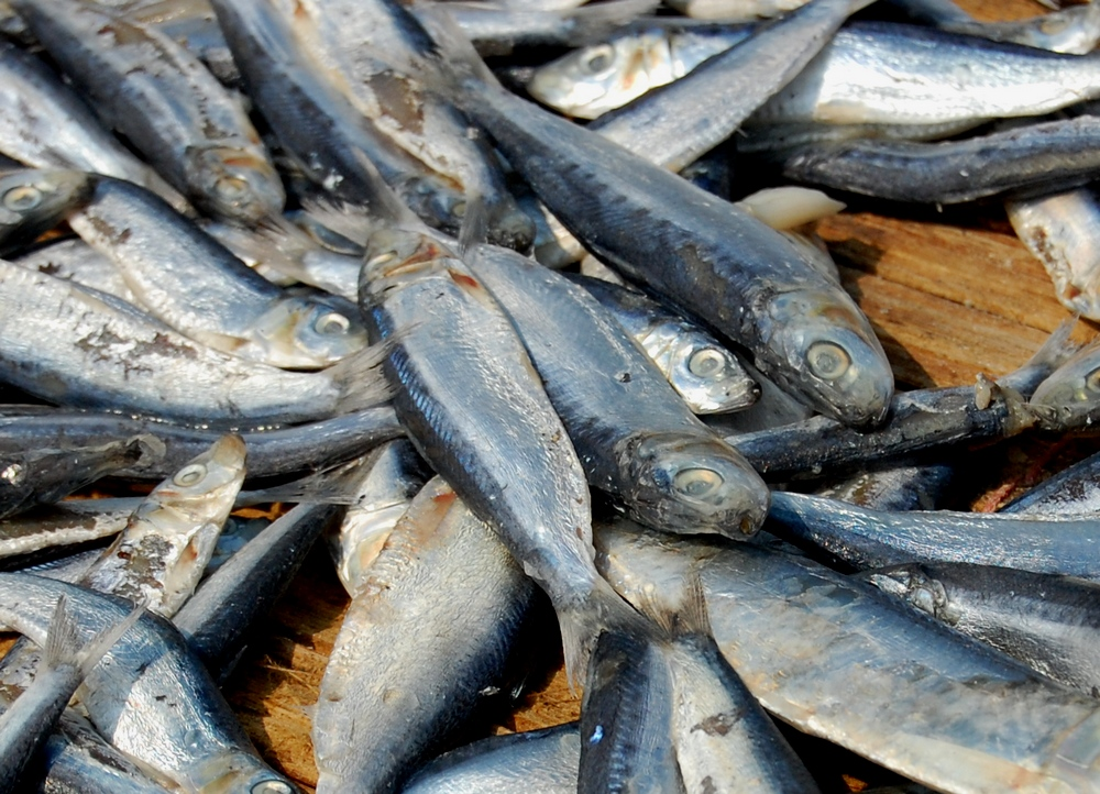 Mixed salted lemuru fish (Amblygaster, Sardinella), sun drying in Muara Angke, Jakarta